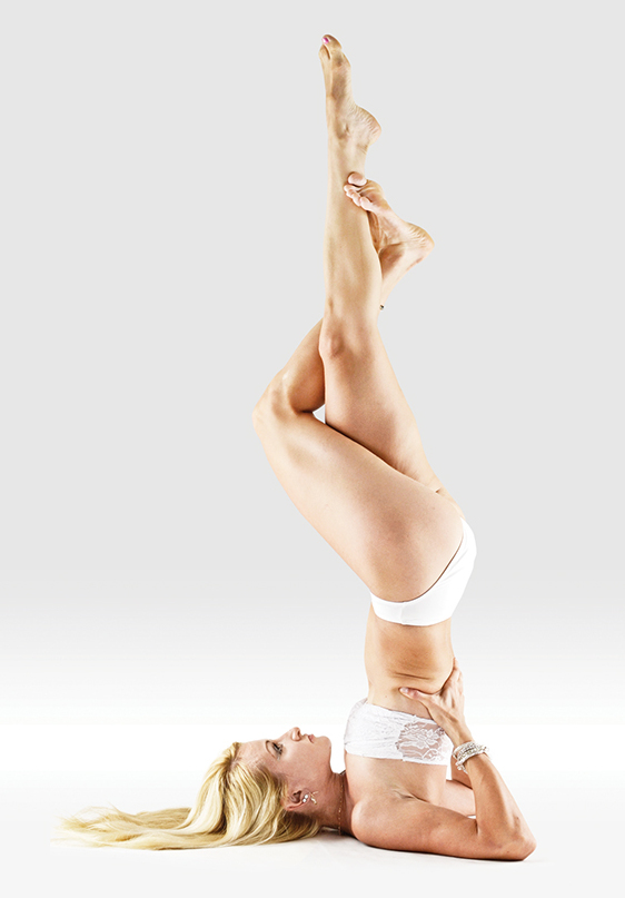 Shoulderstand Garuda Legs Pose